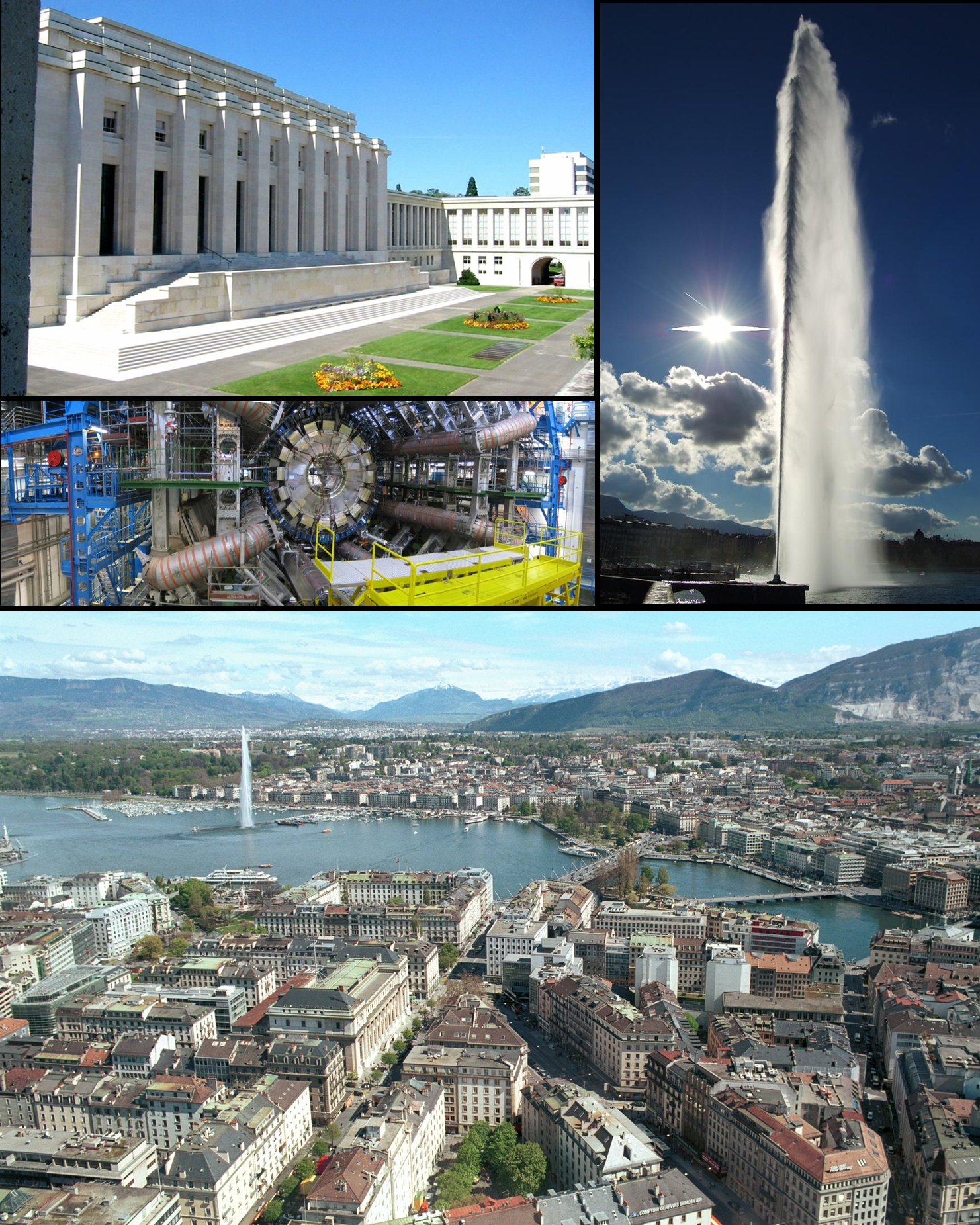 Montage for the Geneva article on Wikipedia